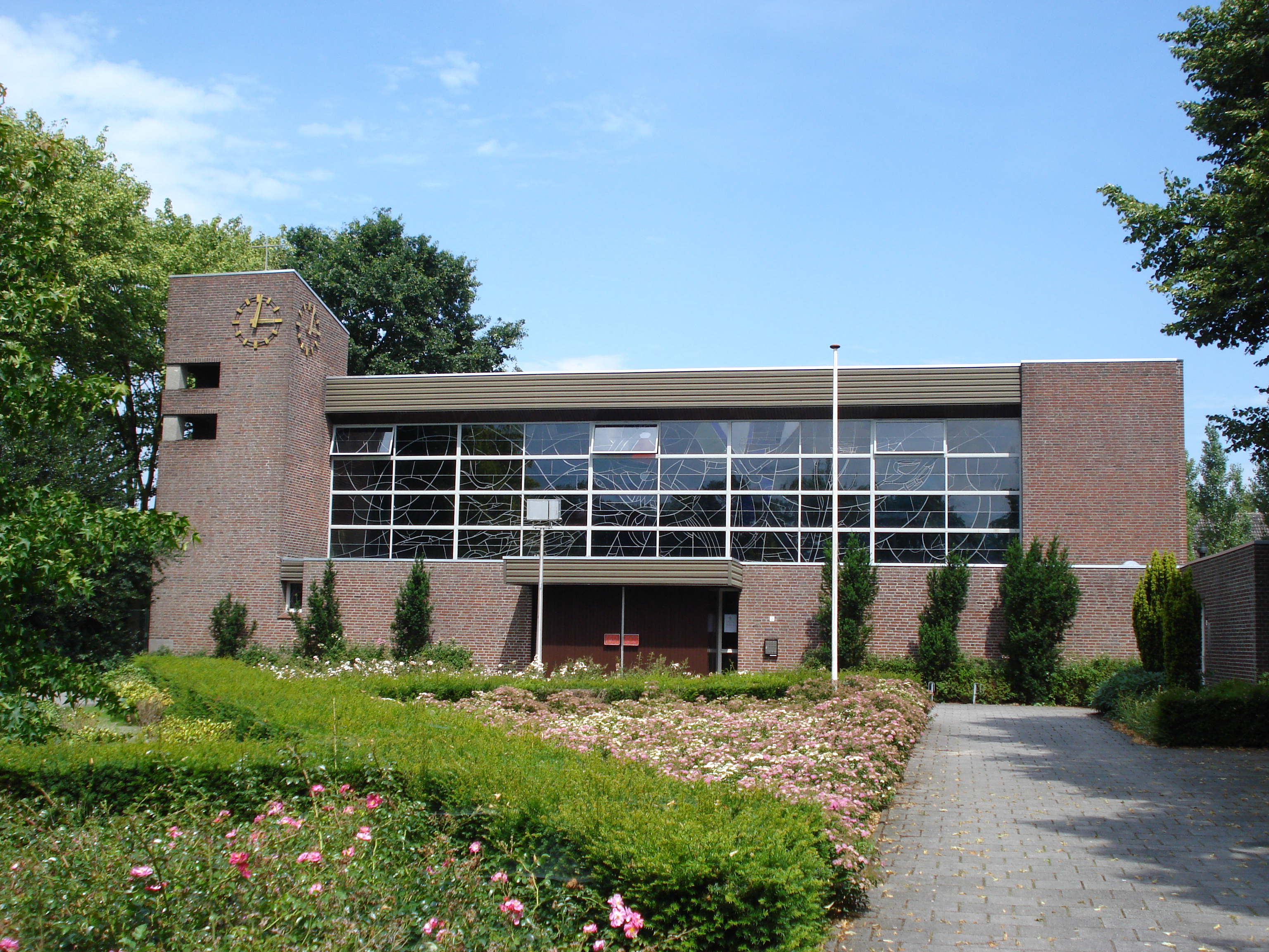 Wilbertoord, l'église (municipality Mill en Sint Hubert, North Brabant, Netherlands